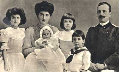 King Victor Emmanuel III, Queen Elena with their children: Princess Yolanda, Princess Mafalda, Prince Umberto and Princess Giovanna